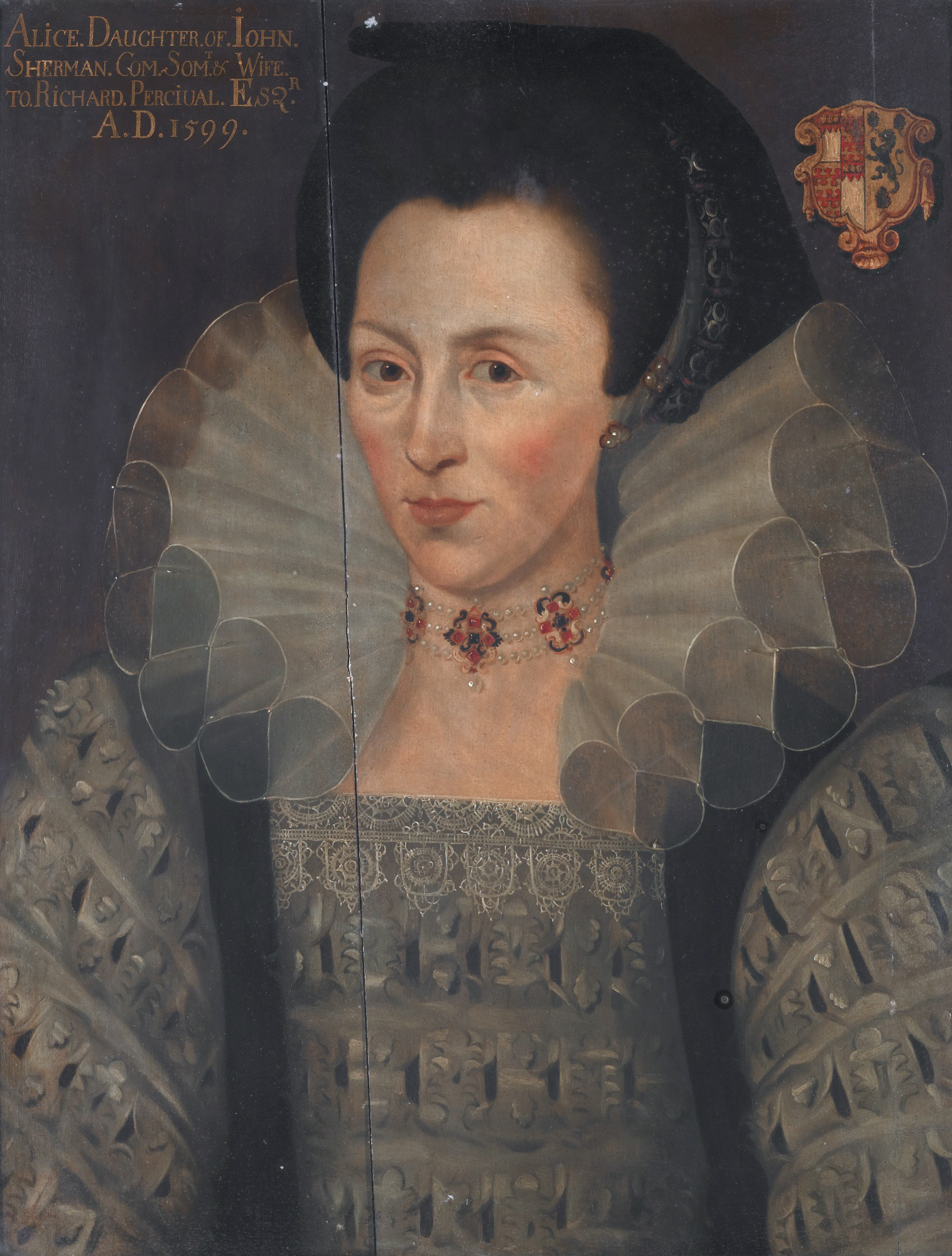 Alice, daughter of John Sherman (of Somerset "Com(itas) Som(erset)", a member of the Sherman family of Yaxley, Suffolk, of Ottery, St. Mary, Devon, etc.), showing the arms of Perceval quartering Lovel, impaling Sherman: Or, a lion rampant sable between three holly leaves vert (Vivian, Lt.Col. J.L., (Ed.) The Visitation of the County of Devon: Comprising the Heralds' Visitations of 1531, 1564 & 1620, Exeter, 1895, p.680, pedigree of Sherman) Pair with File:Richard Perceval (1556-1621), of Twickenham, Somerset, manner of Marcus Gheeraerts the Younger.jpg Sotheby's catalogue entry: "PORTRAIT OF RICHARD PERCEVAL (1556-1621), OF TWICKENHAM, SOMERSET, SECRETARY OF THE COURT OF WARDS IN IRELAND; AND PORTRAIT OF HIS WIFE, ALICE, DAUGHTER OF JOHN SHERMAN OF OTTERY ST. MARY, DEVON". Sold at Sotheby's, London, Sale Number: L14030, Lot 710, Old Master & British Paintings, 30 April 2014 oil on panel 57.5 x 45 cm 1599